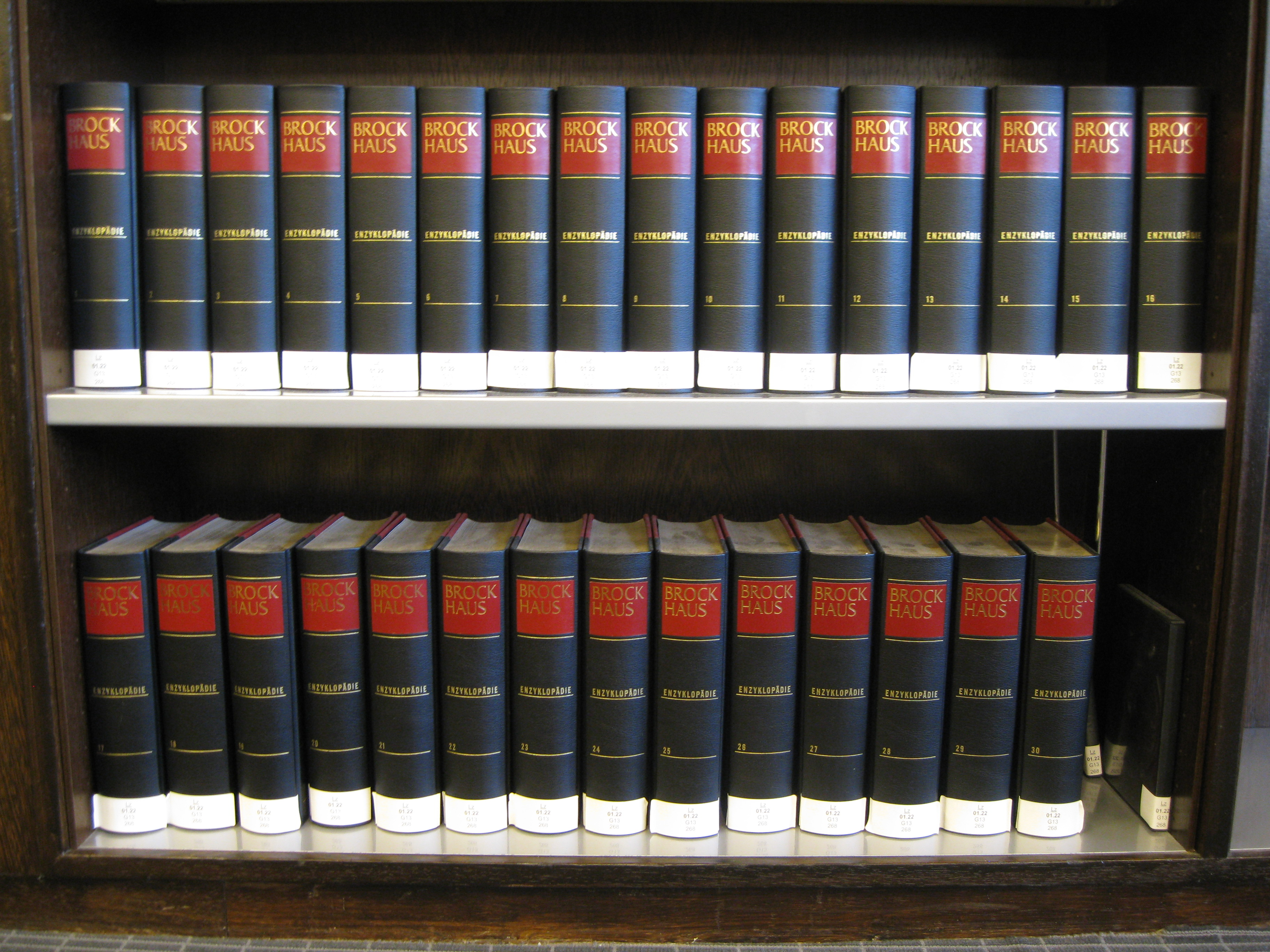 University library of Nijmegen: Brockhaus Enzyklopädie 2005/2006